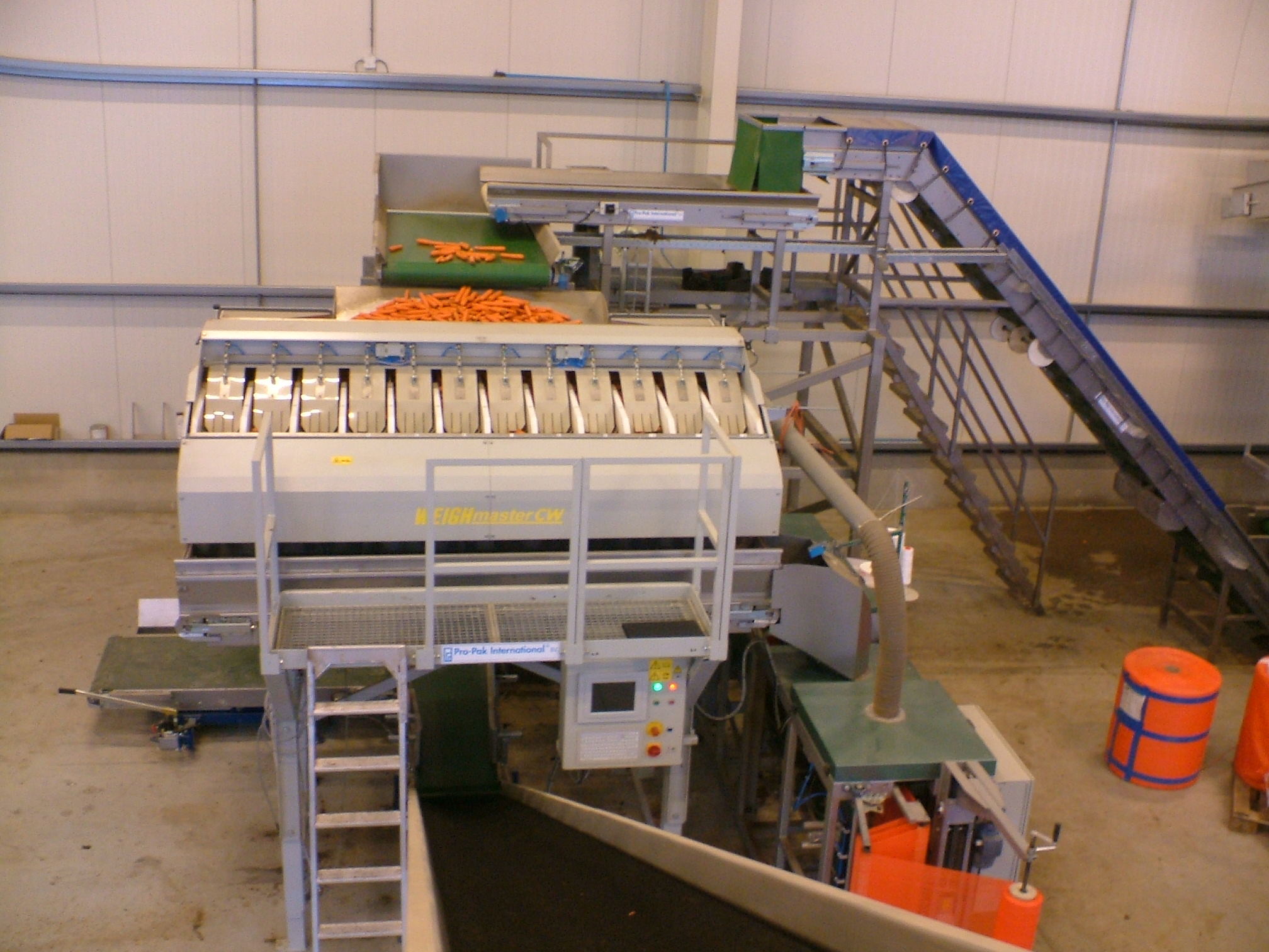 Pro-Pak carrot weigher and Pro-Pak carrot bagger